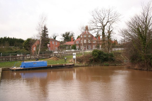 Drakeholes Moorings on the Chesterfield Canal at Drakeholes with the White Swan (formerly the Griff Inn) behind